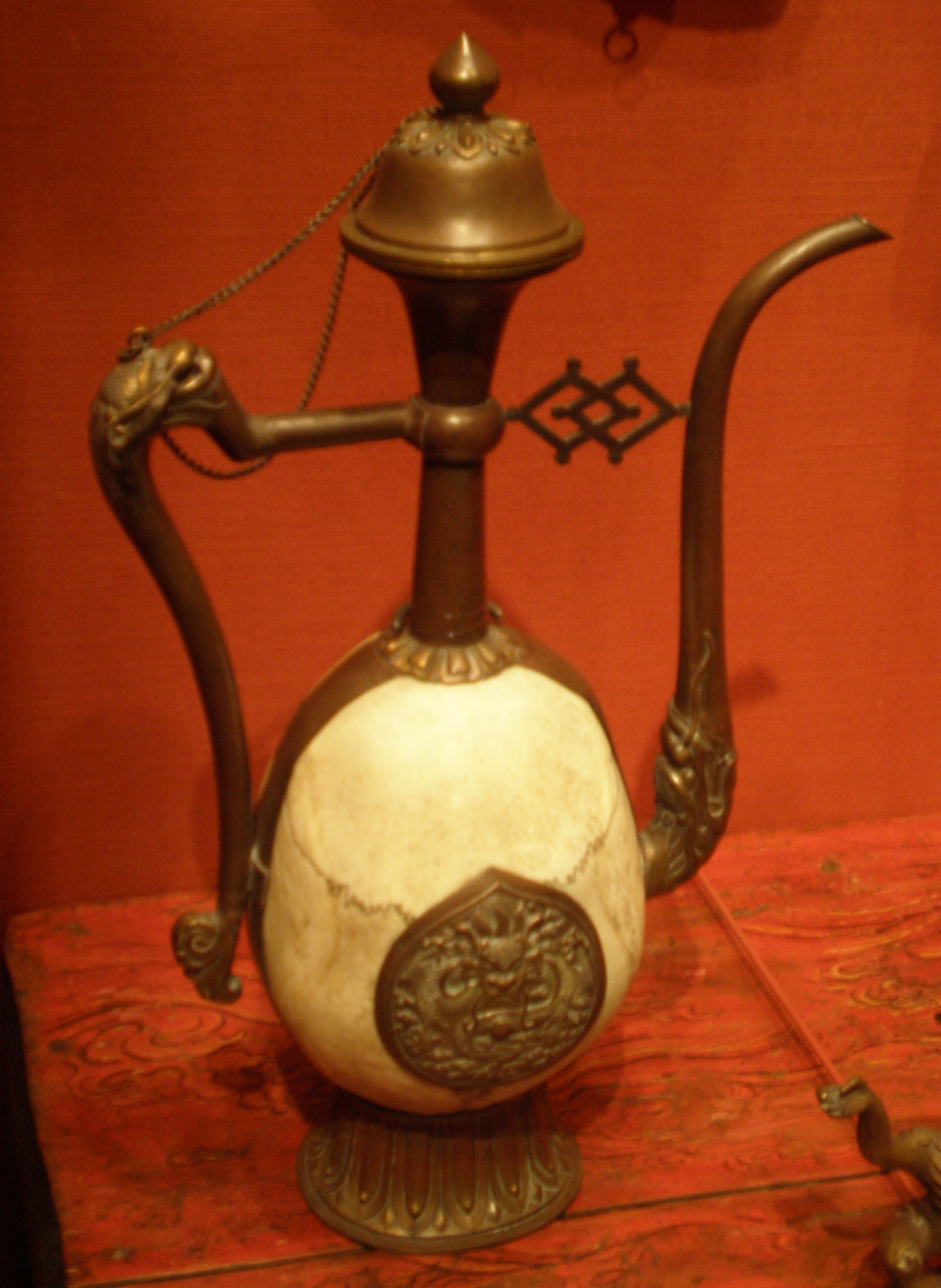 Ewer with human skulls from Dolonnor, Inner Mongolia (approx. 1800-1911 on display at the Asian Art Museum in San Francisco, California. B60M454